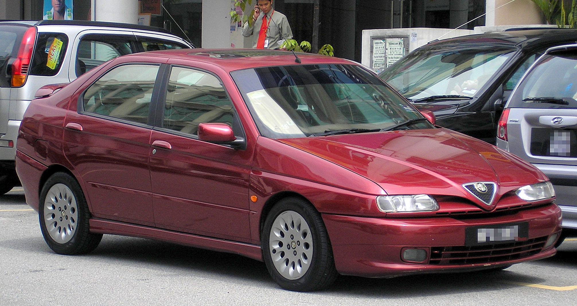 Front-side shot of an first generation Alfa Romeo 146, in Serdang, Selangor, Malaysia.